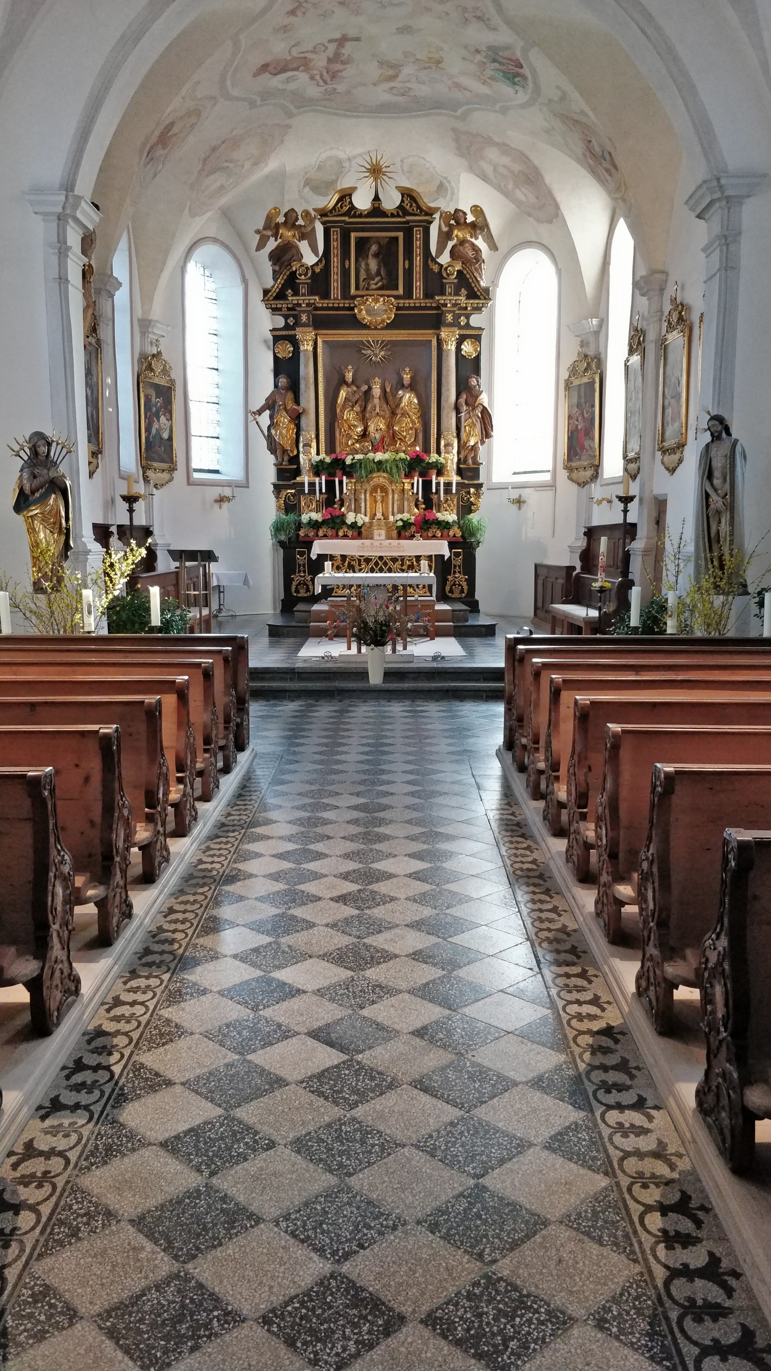 Inside view of the Church St. Salvator in Rimsting (parish Prien).